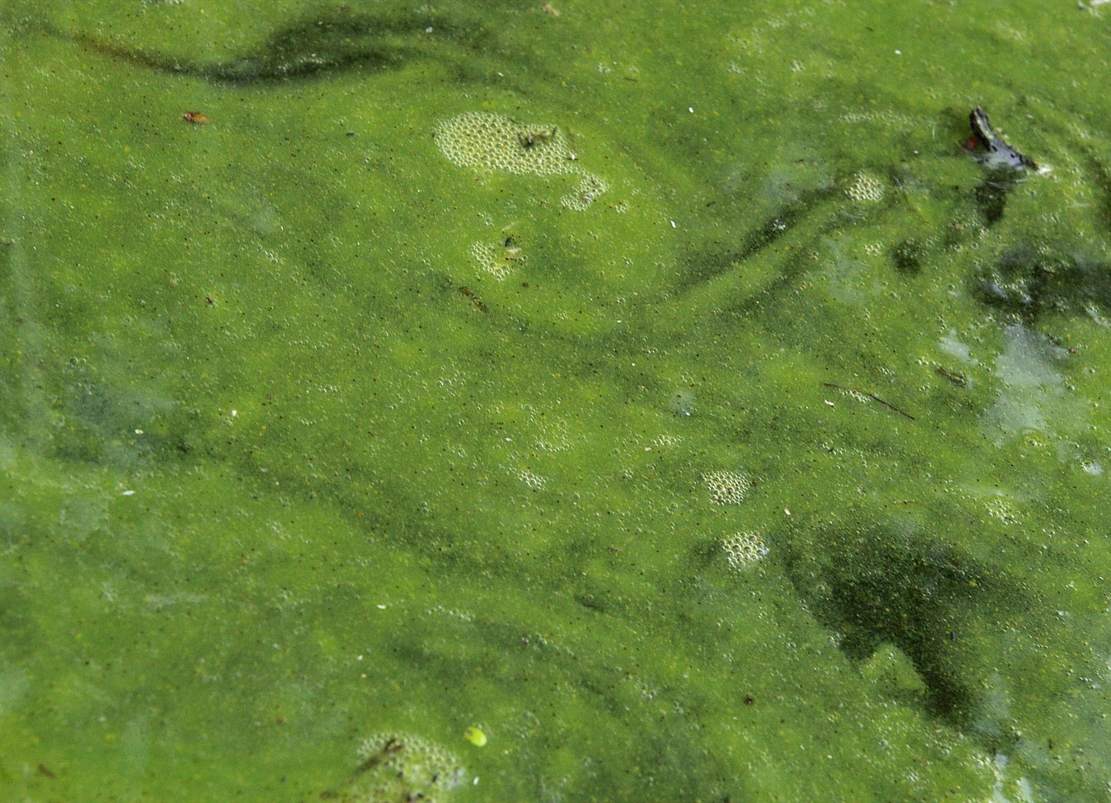 Bloom of cyanobacteria in a freshwater pond.